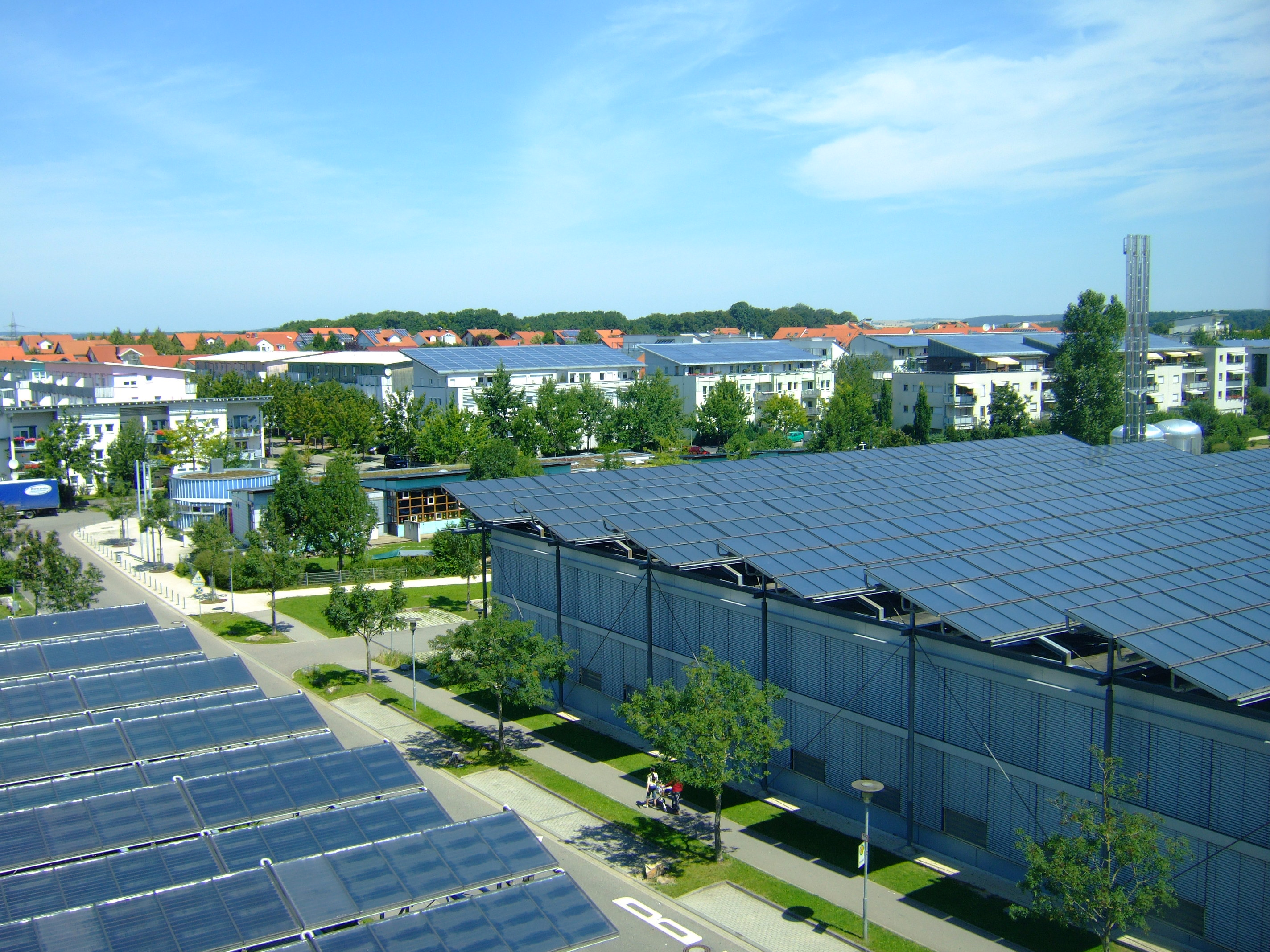 Solar Panels on the top of the houses in Neckarsulm-Amorbach, Germany